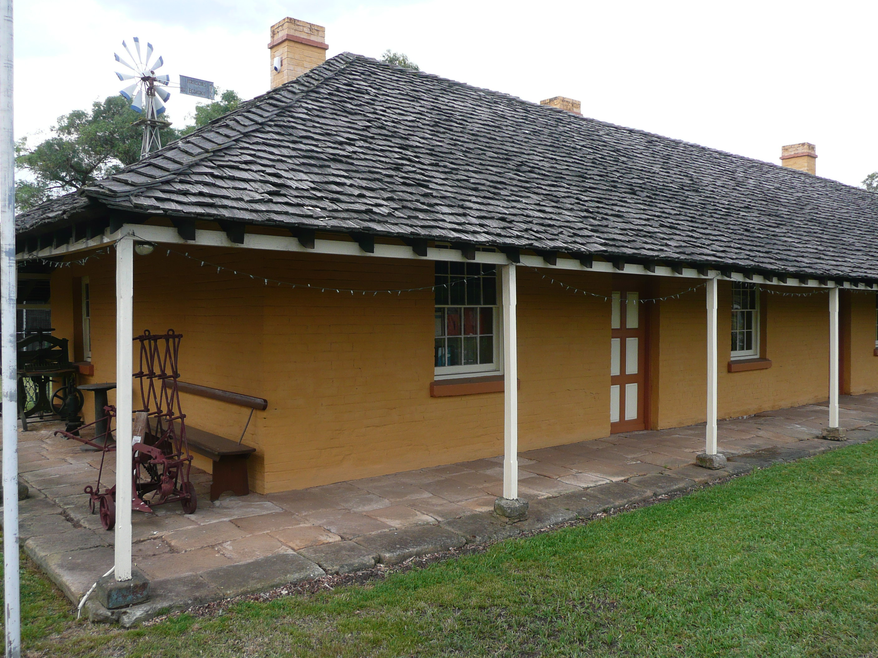 museum, emu plains, sydney, australia